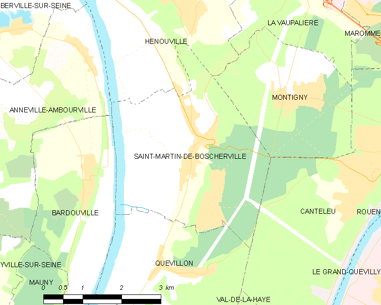 Map of French municipality Saint-Martin-de-Boscherville